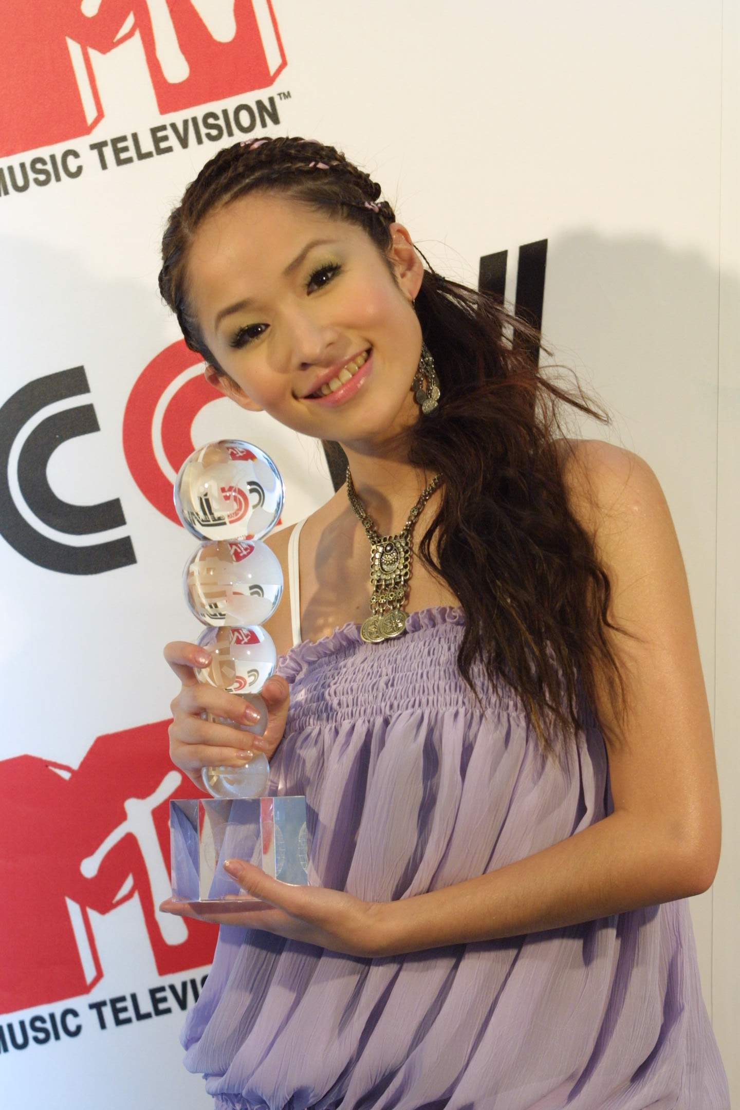 Taiwanese singer Elva Hsiao attended a CCTV-MTV music award ceremony in Beijing in July 2002.